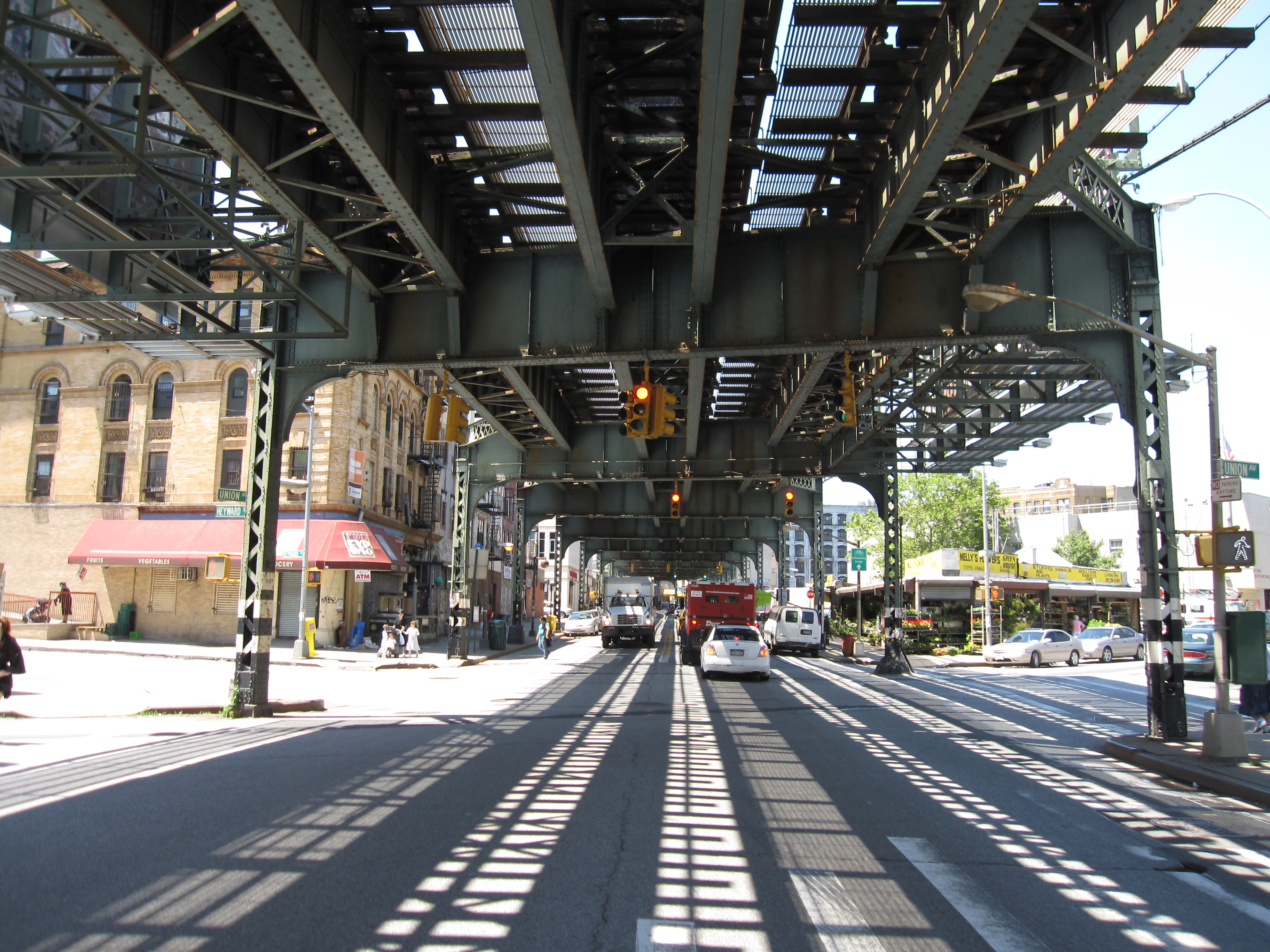 Broadway in Brooklyn, underneath the BMT Jamaica Line at Union Avenue and Broadway station.